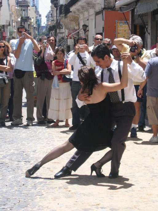 Argentinian tango in the streets of San Telmo, Buenos Aires